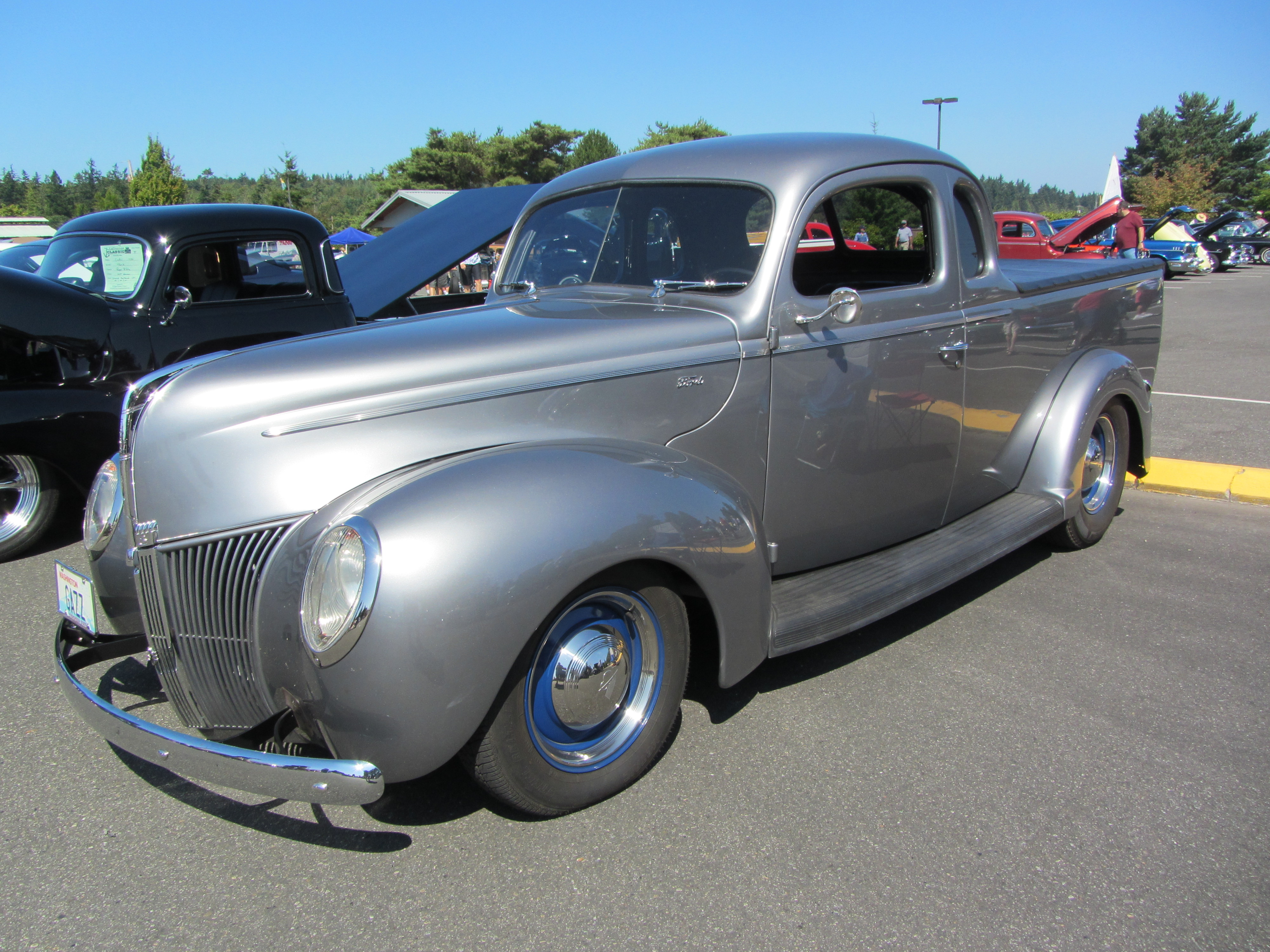 1939 Ford Coupe Utility, one of the first produced utes. Original caption: Nice Australian ute body but built in LHD for this owner. Seen at the boat and car show in LaConner, Washington.